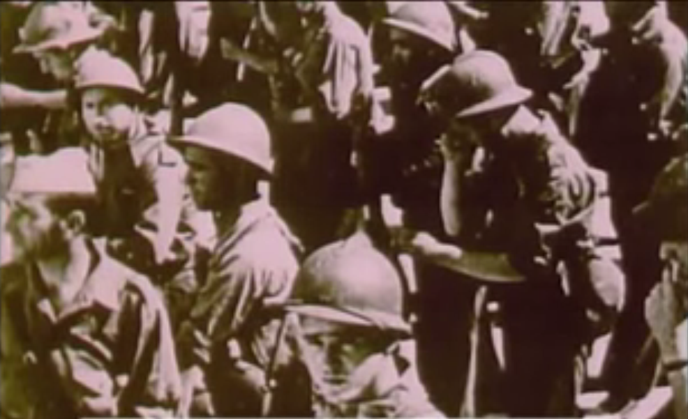 Ukrainian volunteers in the Spanish Civil War